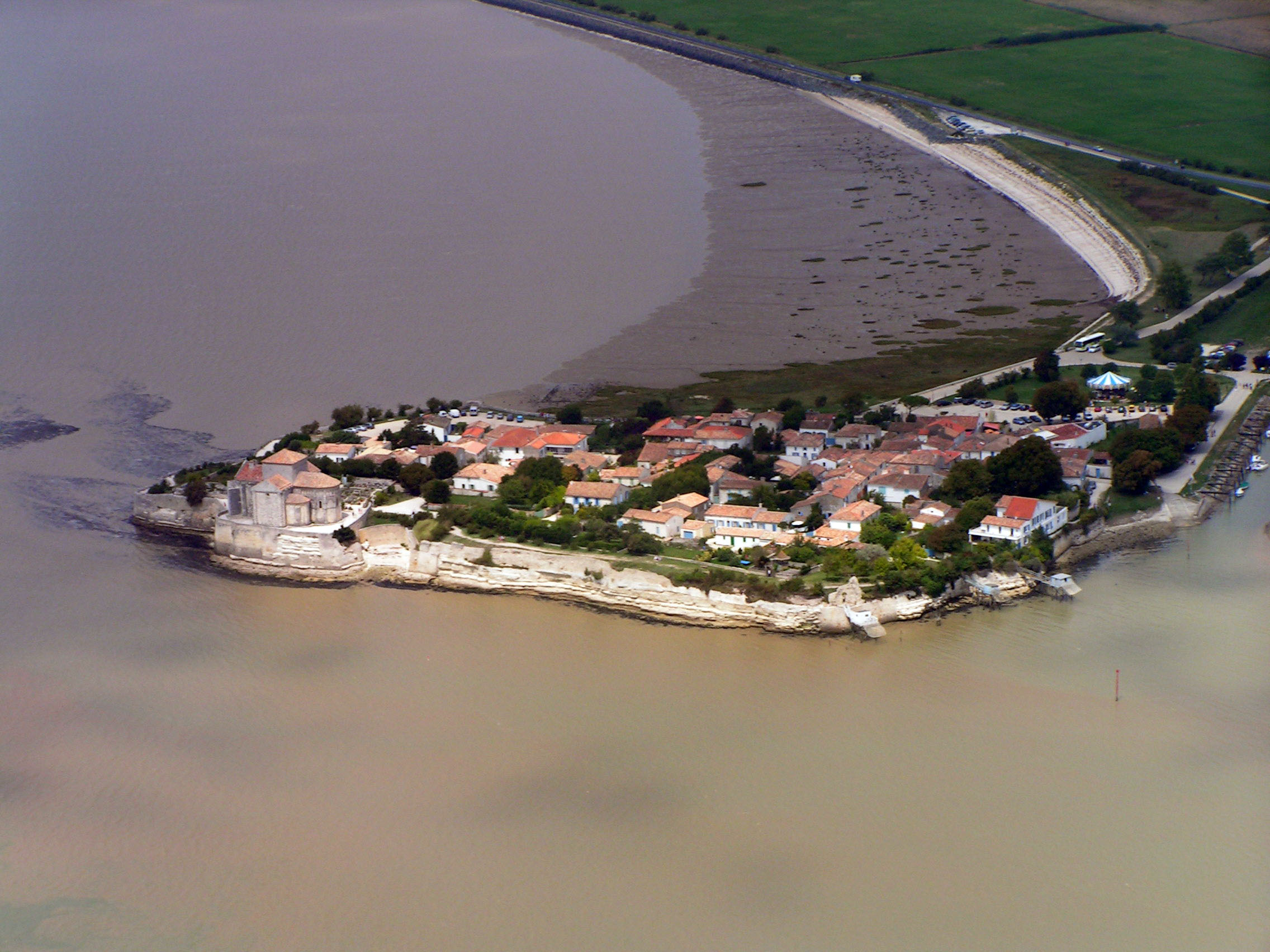 Talmont-sur-Gironde, seen from the air, July 2011